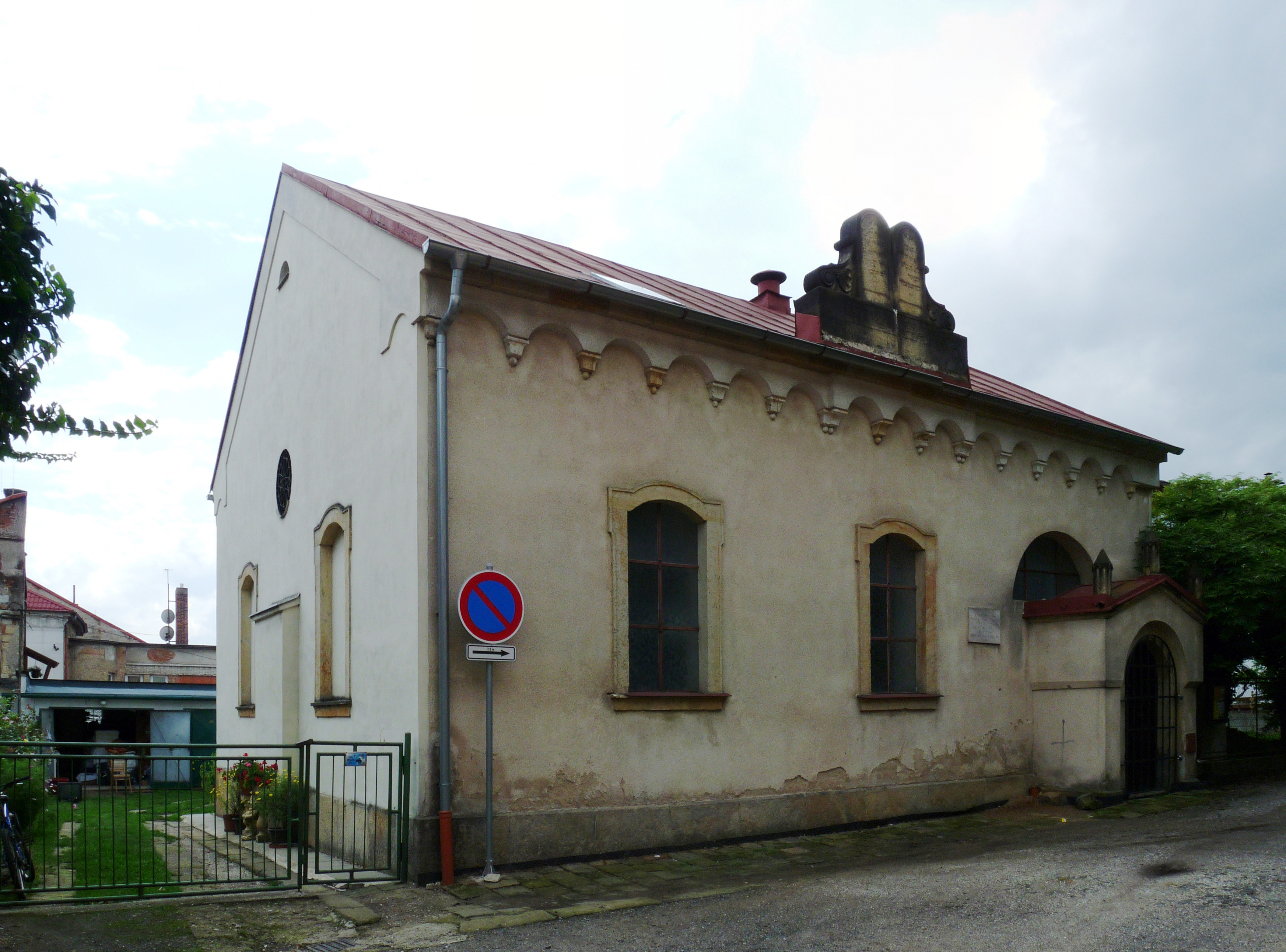 Former synagogue in Hořice, Jičín District, Hradec Králové Region, Czech Republic.